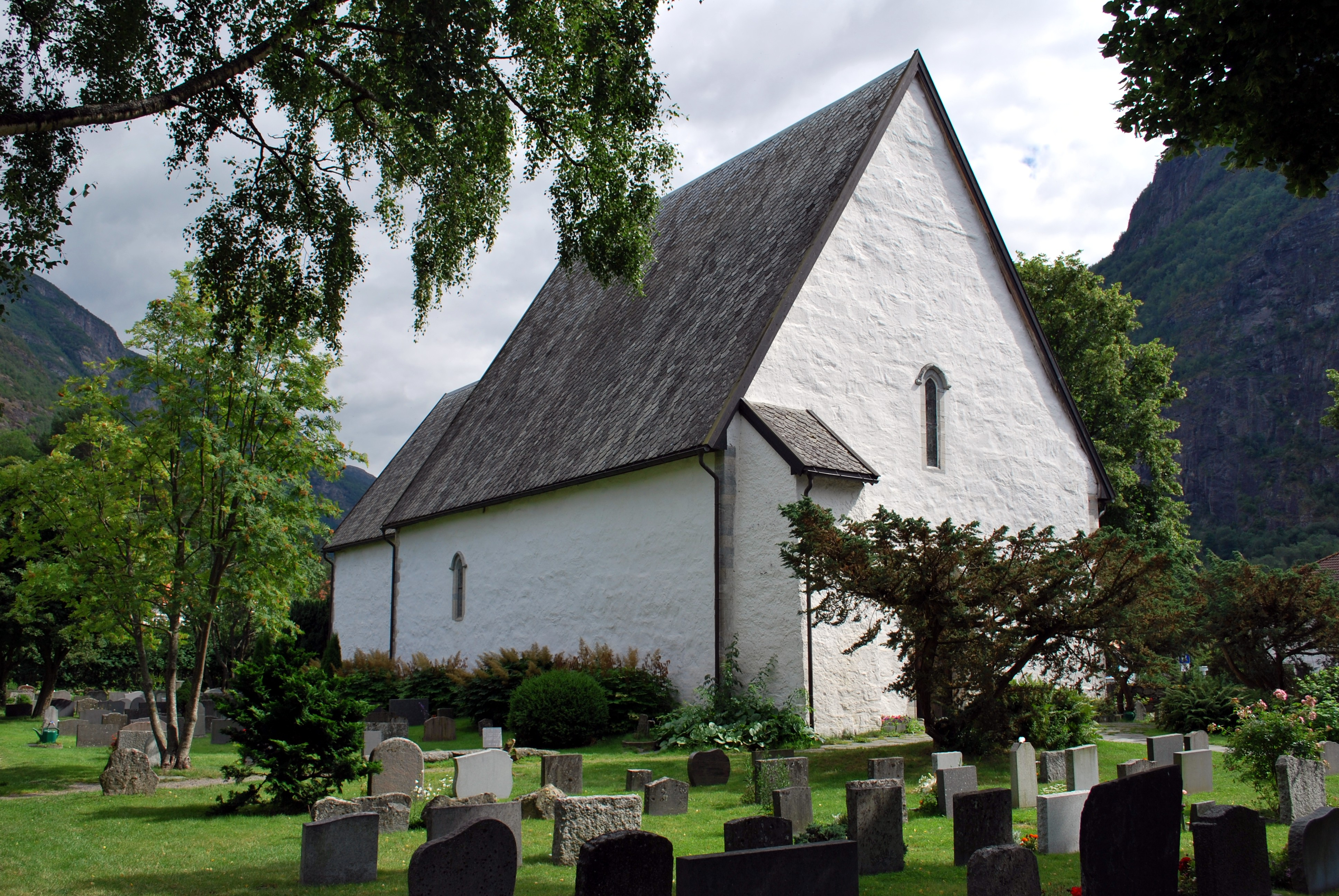 Vangen church, Aurland, Norway, exterior, July 2009.